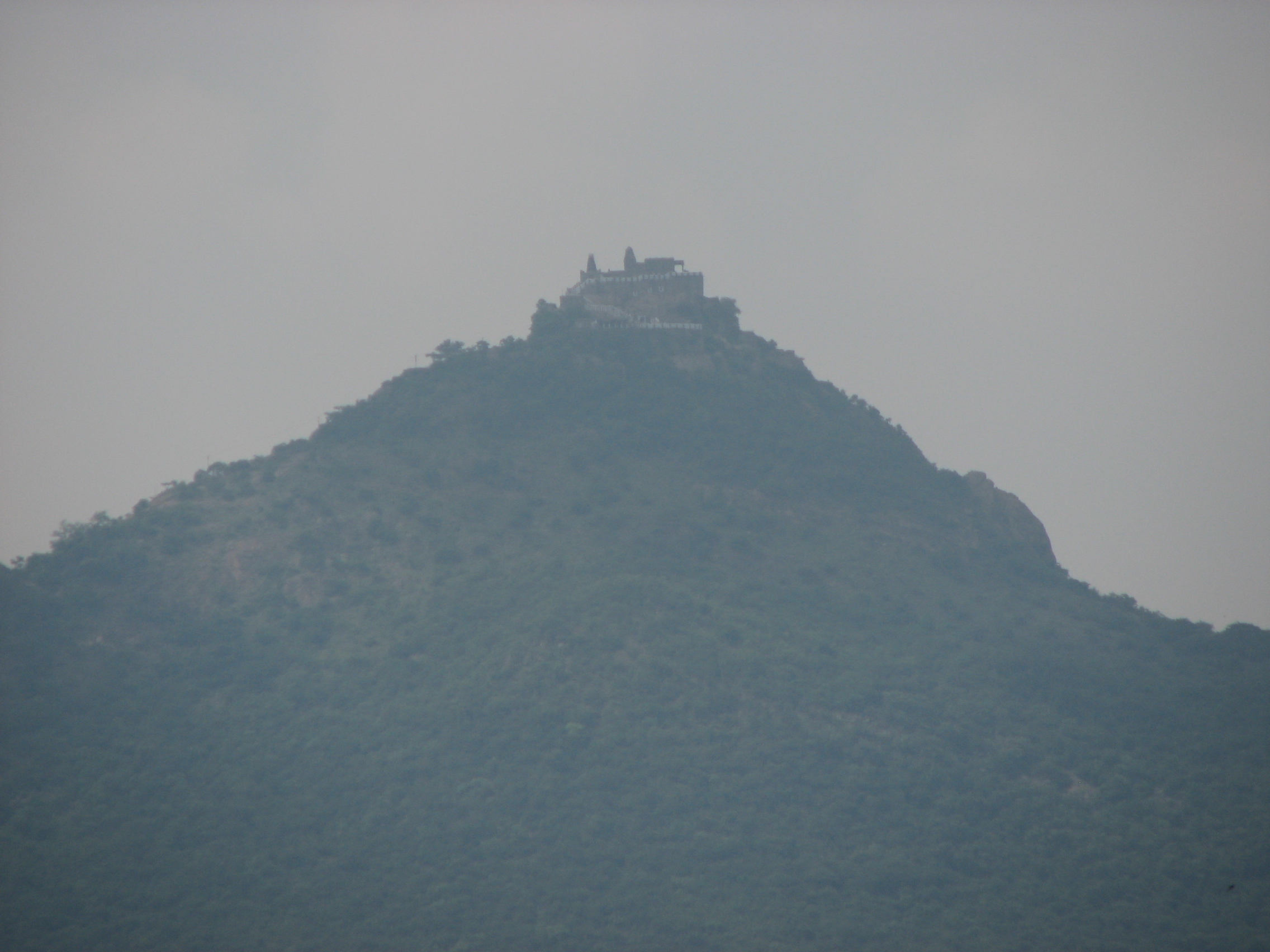 Nainamalai, near Sendamangalam, Namakkal India. It is a hill temple, no road access to it. The road construction work to reach the top of hill is currently in progress.Main deity is Varatharaja Perumal.but now the government make a way to go up like a sandway